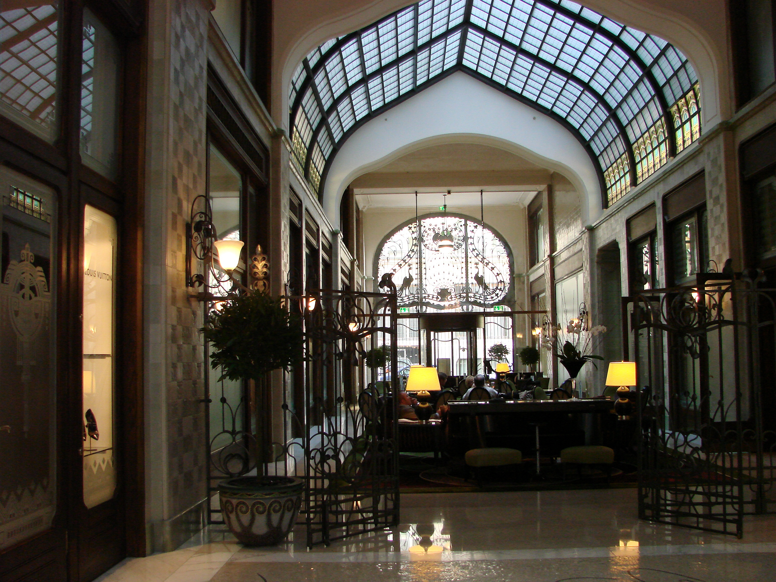 Four Seasons Gresham Palace Hotel - Interior - Pest Side - Budapest - Hungary - 01